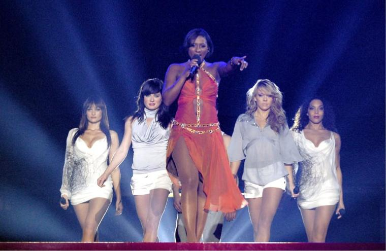 Dutch recording artist Edsilia Rombley at Eurovision 2007.